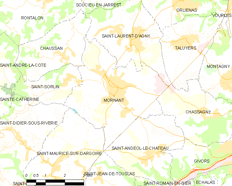 Map of French municipality